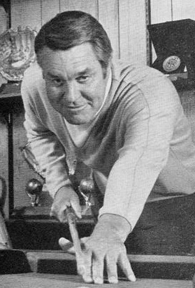 San Francisco Giants play-by-play announcer Lon Simmons in a 1971 magazine advertisement for Giants flagship station KSFO.